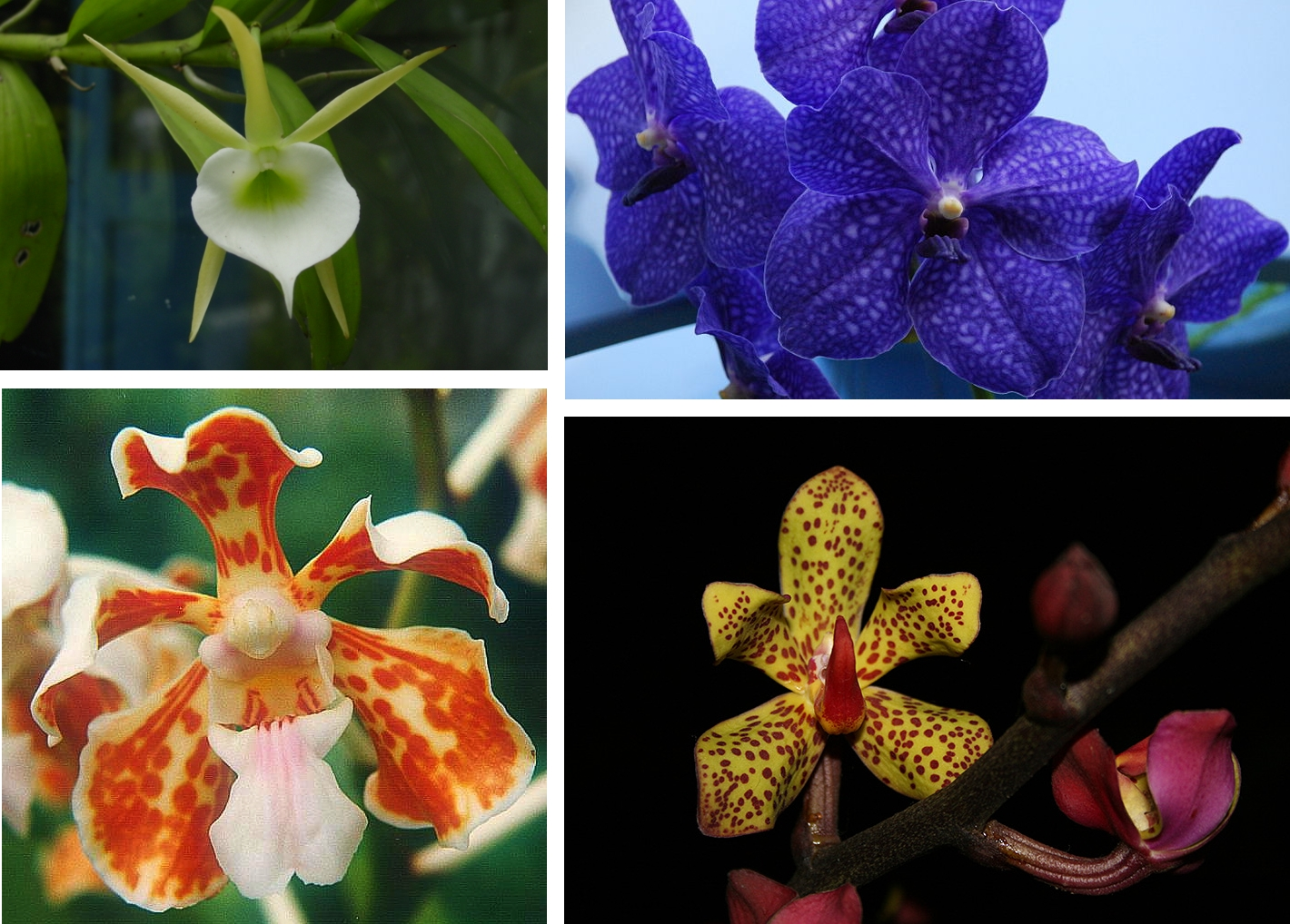 Composite of 4 Vandeae. Angraecum Infundibulare, Vanda Pachara Delight, Vanda Tricolor Insignis, Vanda Lissochiloides